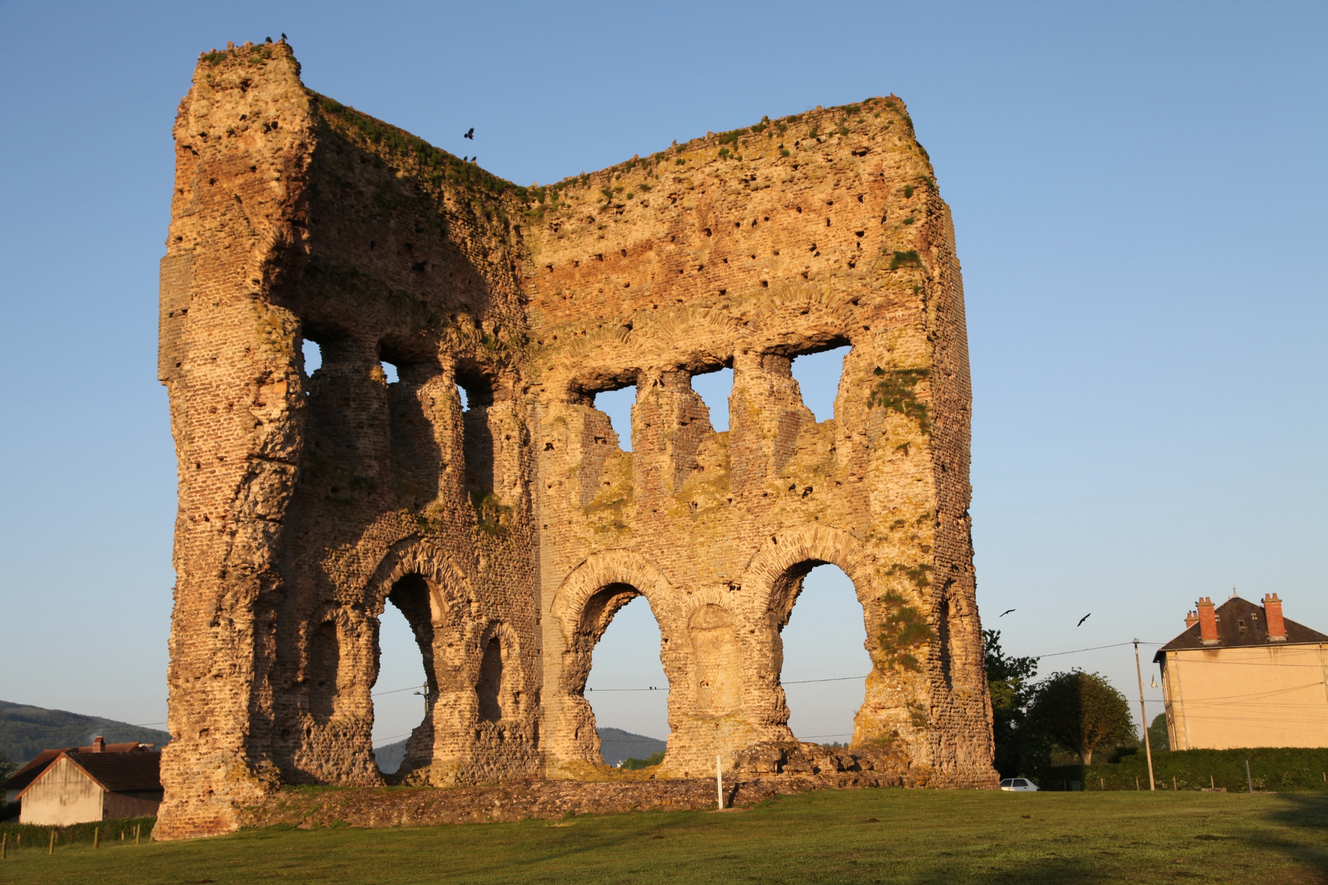 Autun Burgundy France Temple of Janus (Roman Empire) .